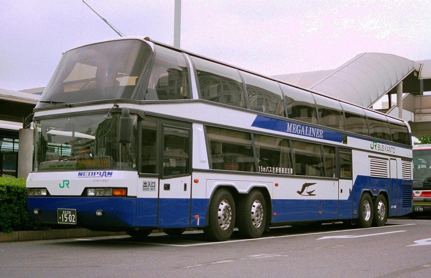 JR Bus Kanto(Japan)Neoplan N128/4 Megaliner It takes a picture at the Tsukuba center. ジェイアールバス関東が運行していた メガライナーによる高速バスつくば号 つくばセンターにて撮影 See also Ja:ネオプラン・メガライナー for more information(written in Japanese).